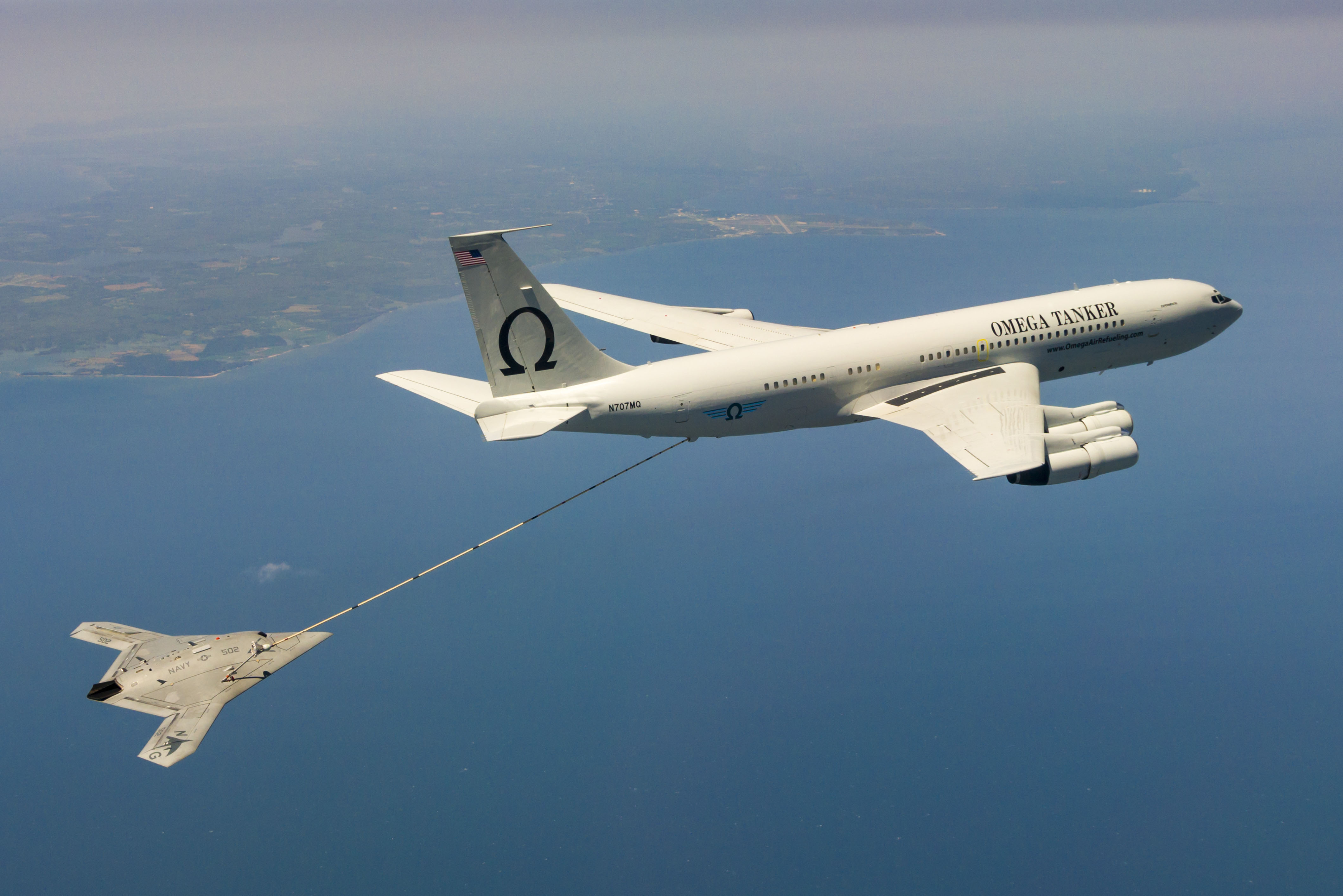 The U.S. Navy's unmanned Northrop Grumman X-47B receives fuel from an Boeing 707-368C tanker while operating in the Atlantic Test Ranges over the Chesapeake Bay (USA). This test marked the first time an unmanned aircraft refueled in flight.